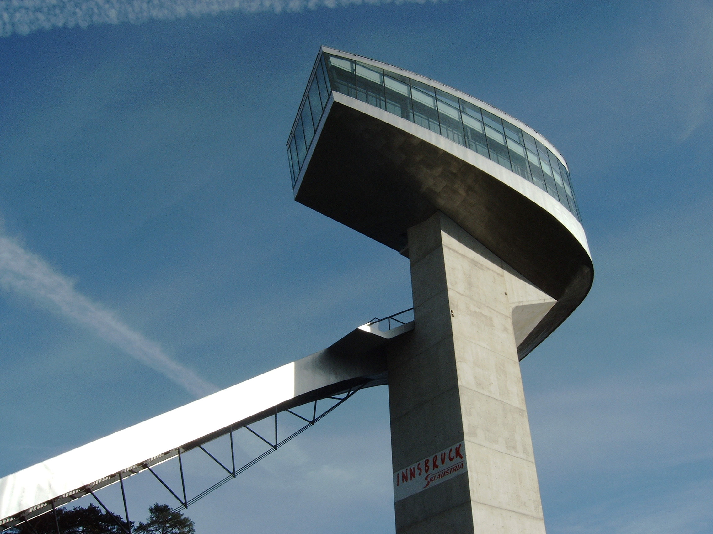 Bergisel Schanze (Architect: Zaha Hadid), Innsbruck, Austria